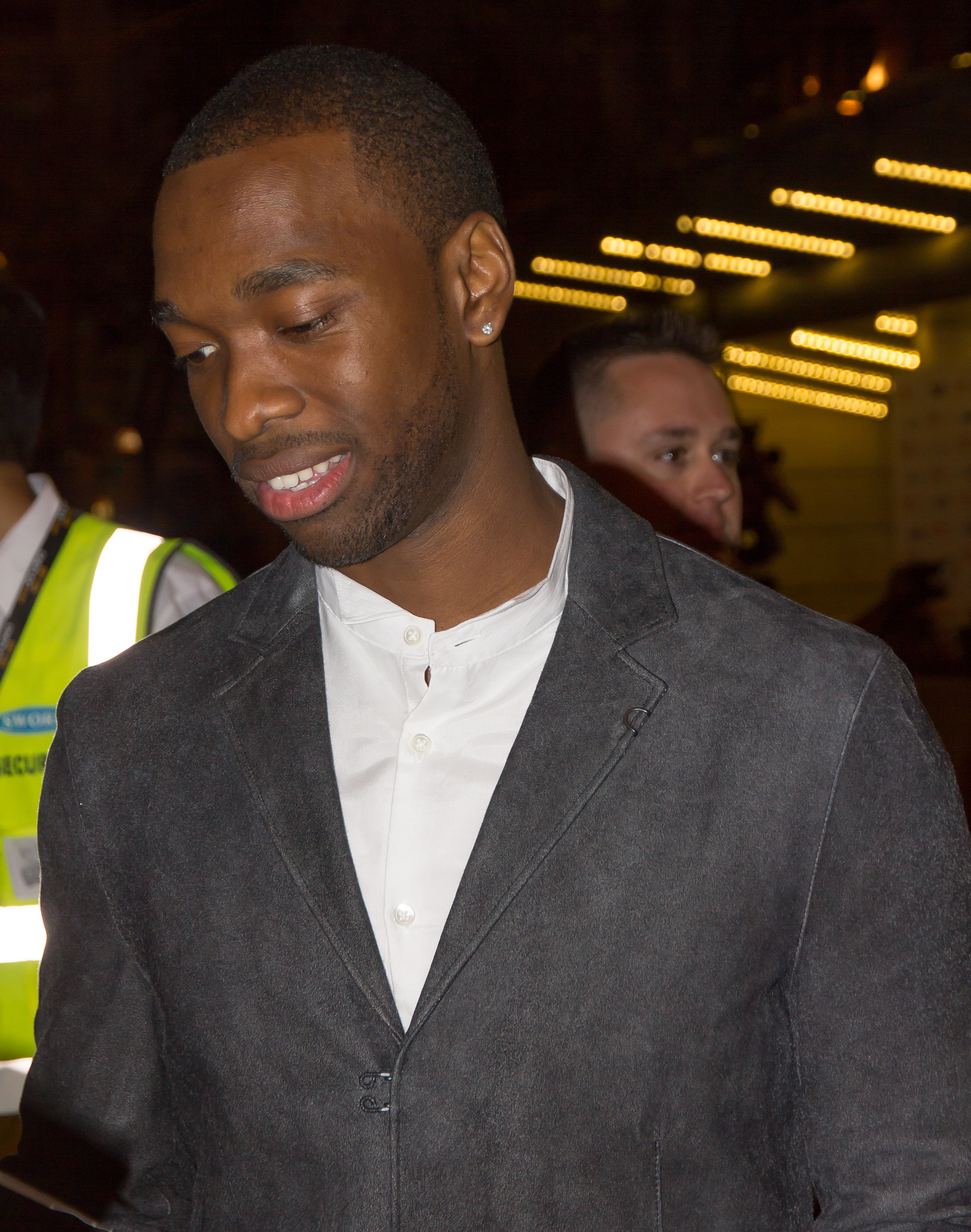 Jay Pharoah at the Top Five premiere at the 2014 Toronto International Film Festival